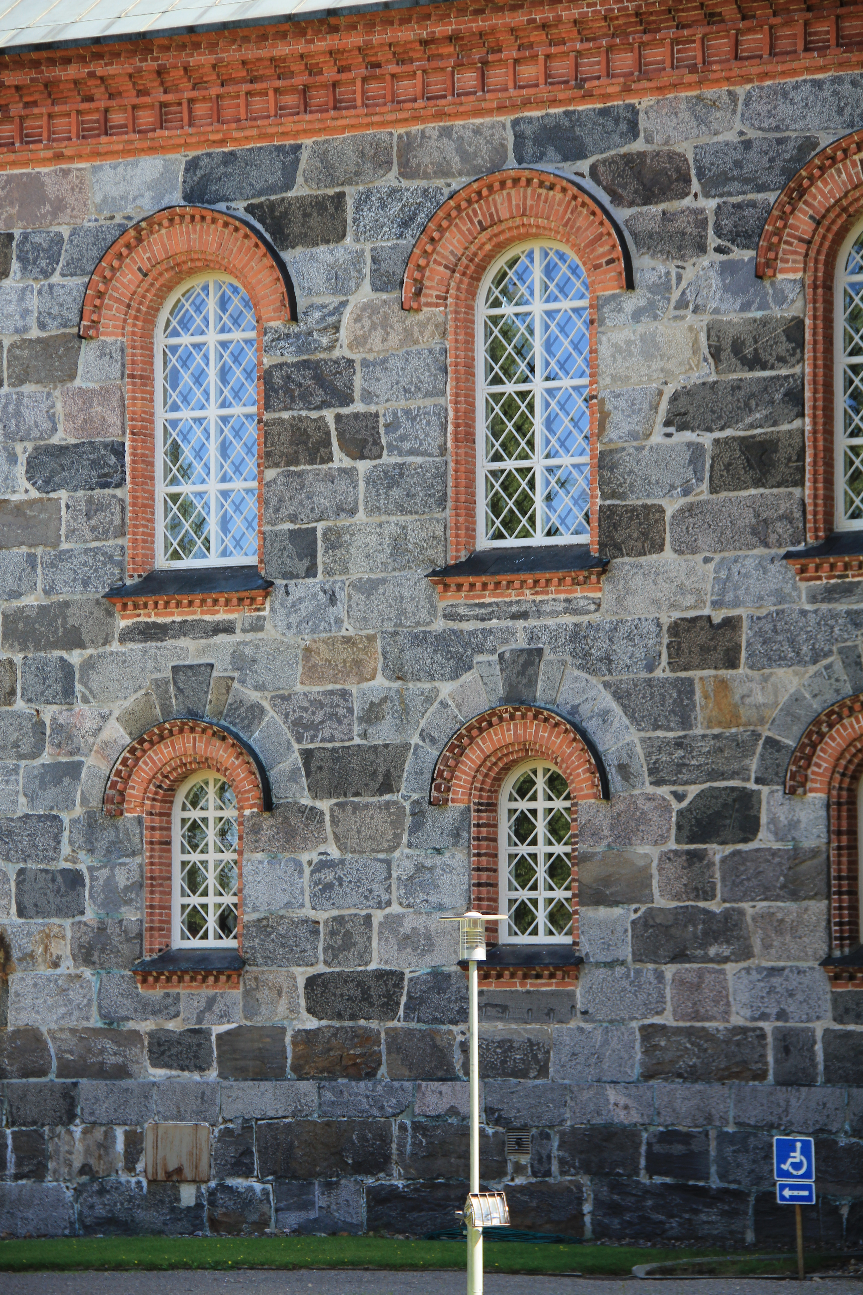 Juva church, Juva, Finland. - Stone church, designed by architects Ernst Lohrmann and Carl Albert Edelfelt. Completed in 1863. - Church windows.